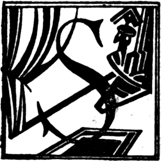 initial S from page 27 of Hugh Selwyn Mauberley (1920) by Ezra Pound.